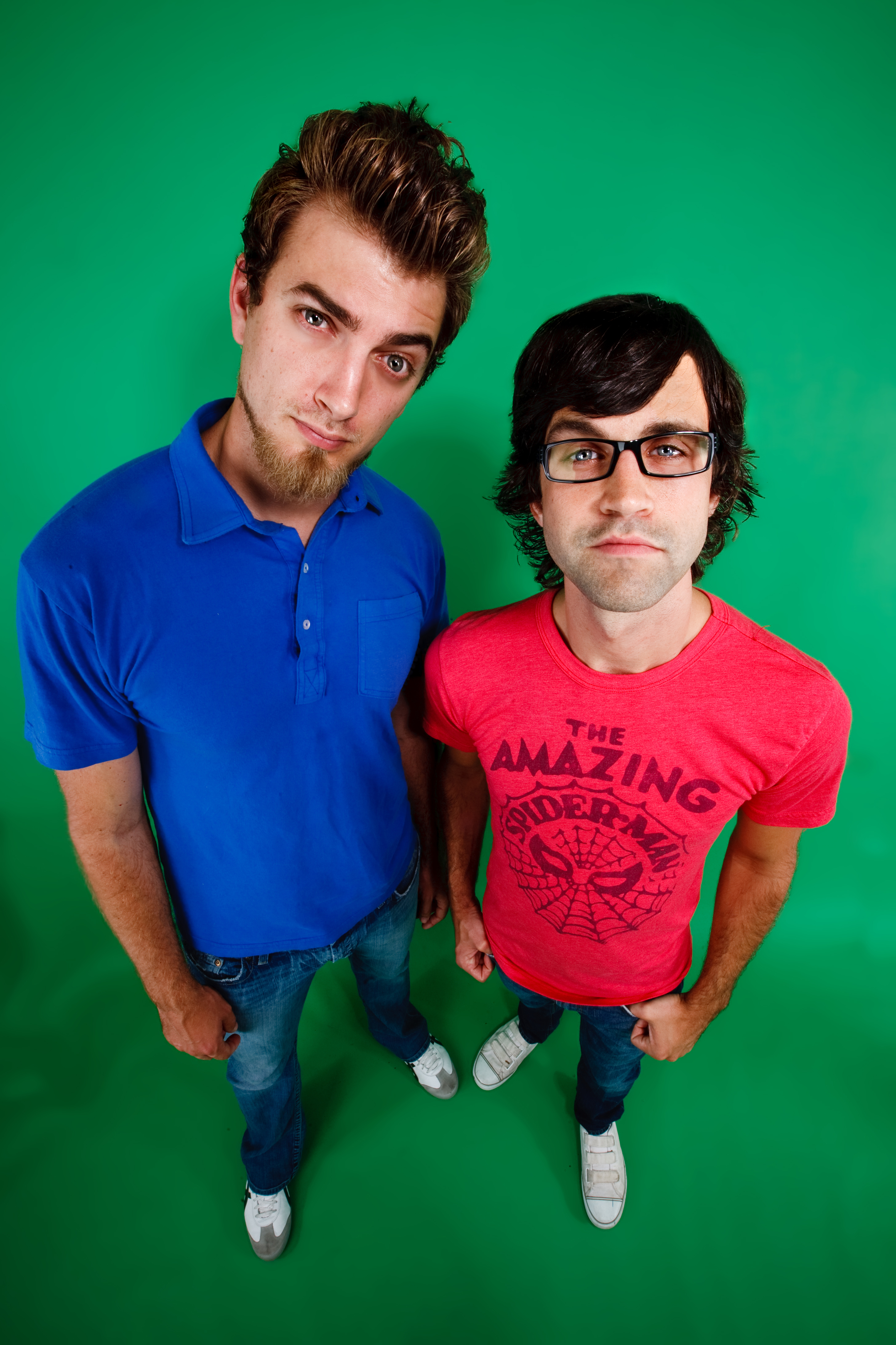 Rhett and Link In The Woods Pt. 2